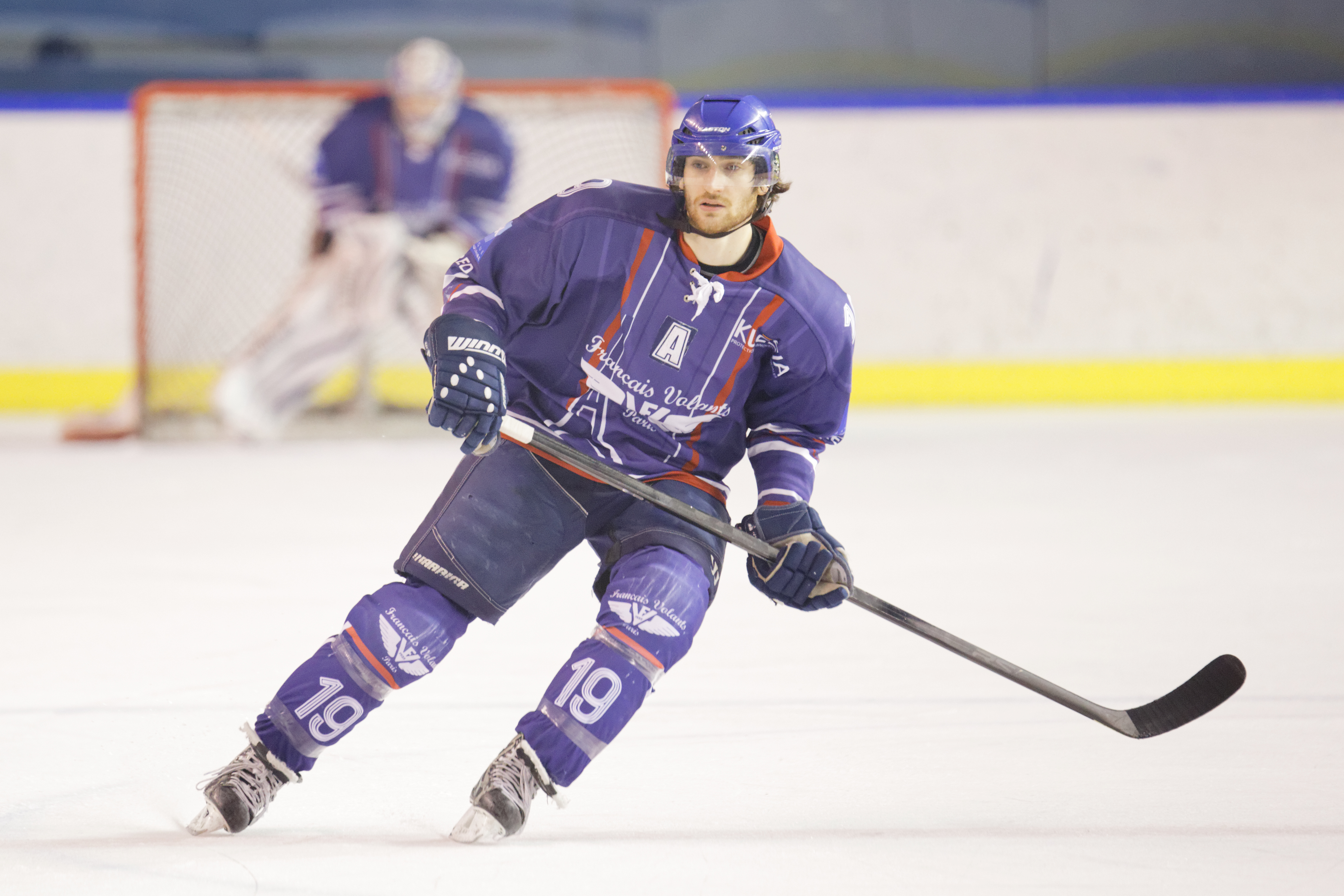 Français volants vs Taureau de feu, March 5th, 2016.